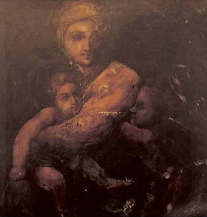 Marth Mariam and Unni Isho accompanied by Mar Yohanan Mamdana from Peshitta.